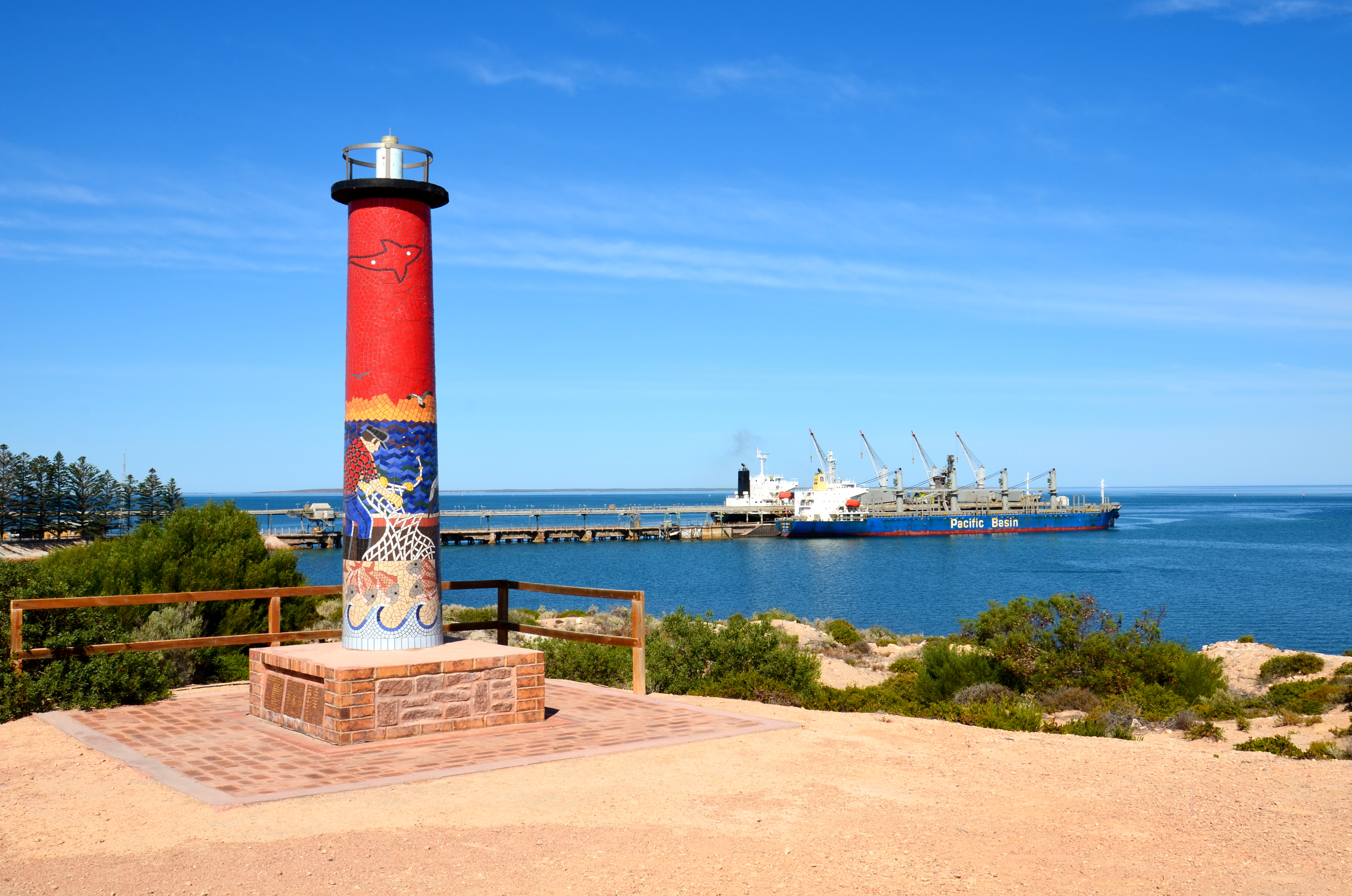 View of the lighthouse memorial commemorating those lost at sea, Thevenard, South Australia